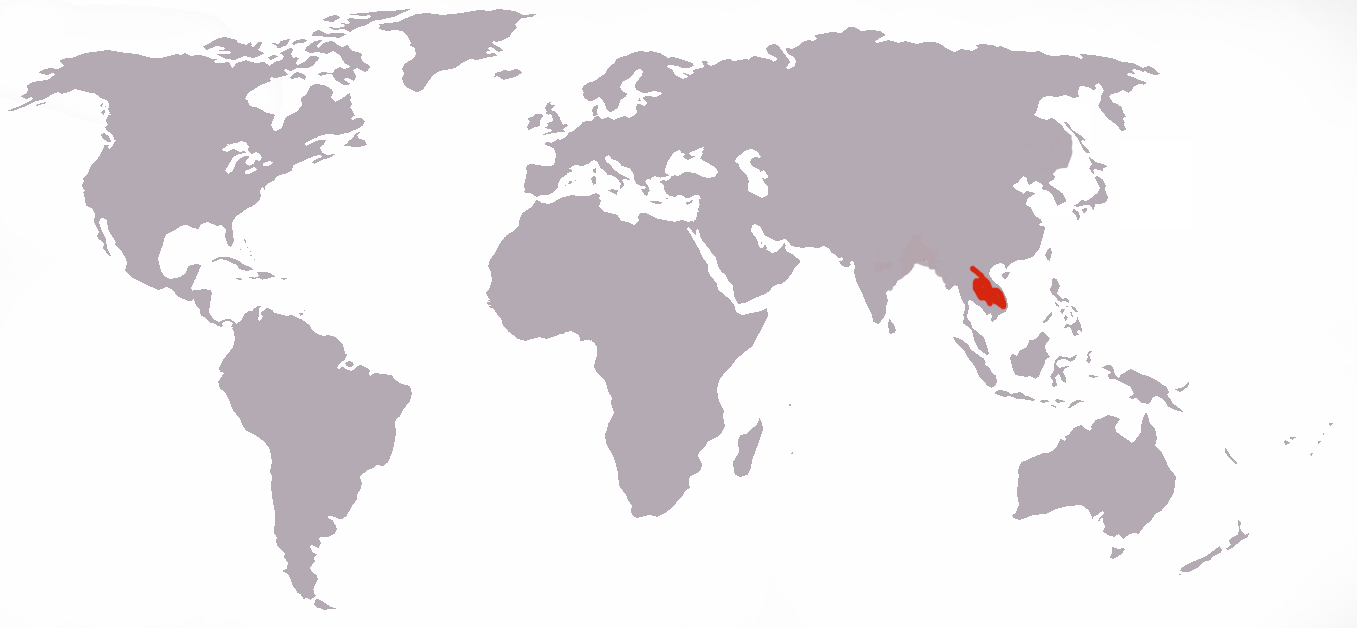 Distribution of the Indochinese Tiger(Panthera Tigris Corbetti).